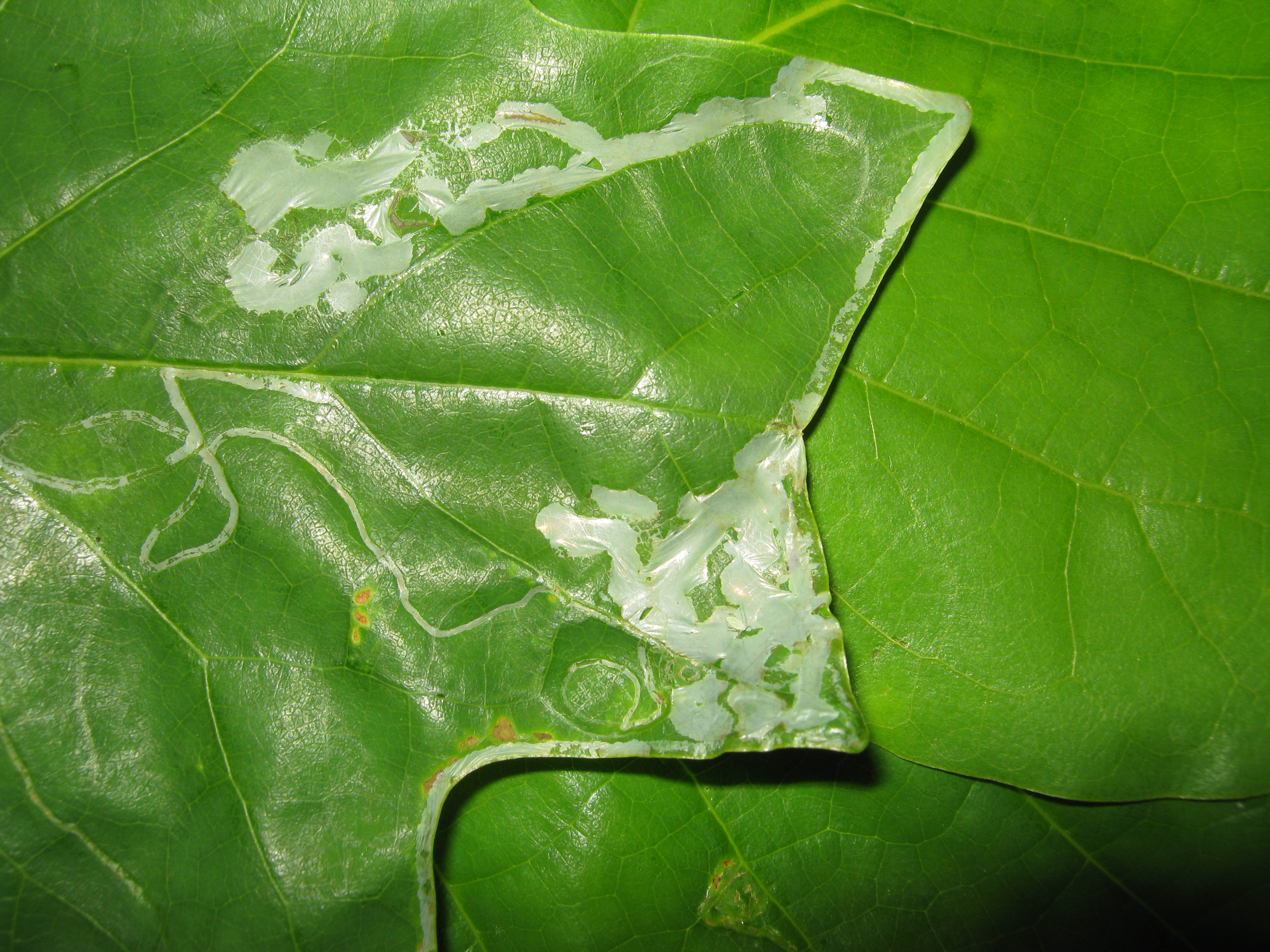 Leaf mines of Phyllocnistis liriodendronella on tulip tree. Briar Bush Nature Center, Montgomery County, Pennsylvania, USA.